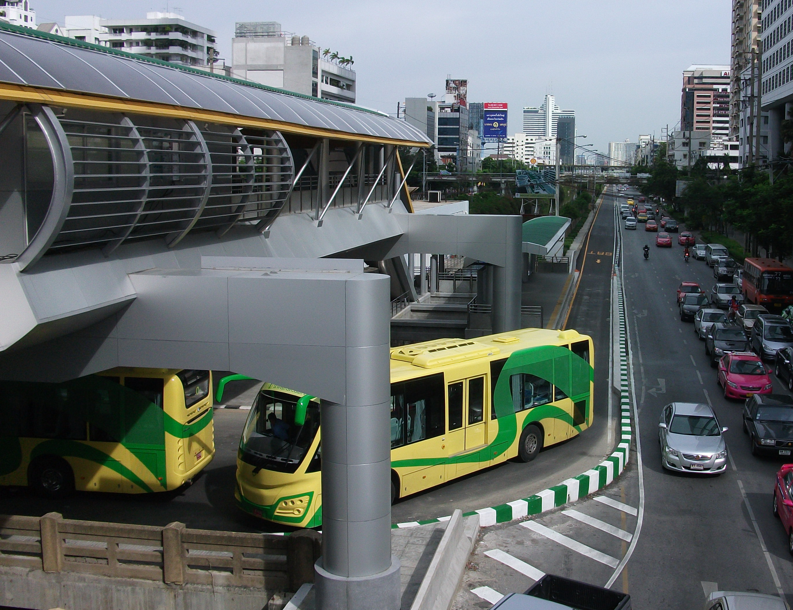 Sathorn Station (Bangkok BRT)